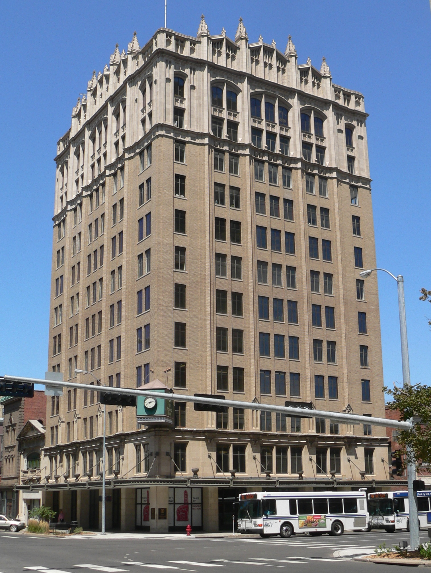 Federal Trust Building, located at 134 S. 13th Street (northeast corner of 13th and N) in Lincoln, Nebraska; seen from the southwest. The bus in the photo is westbound on N.